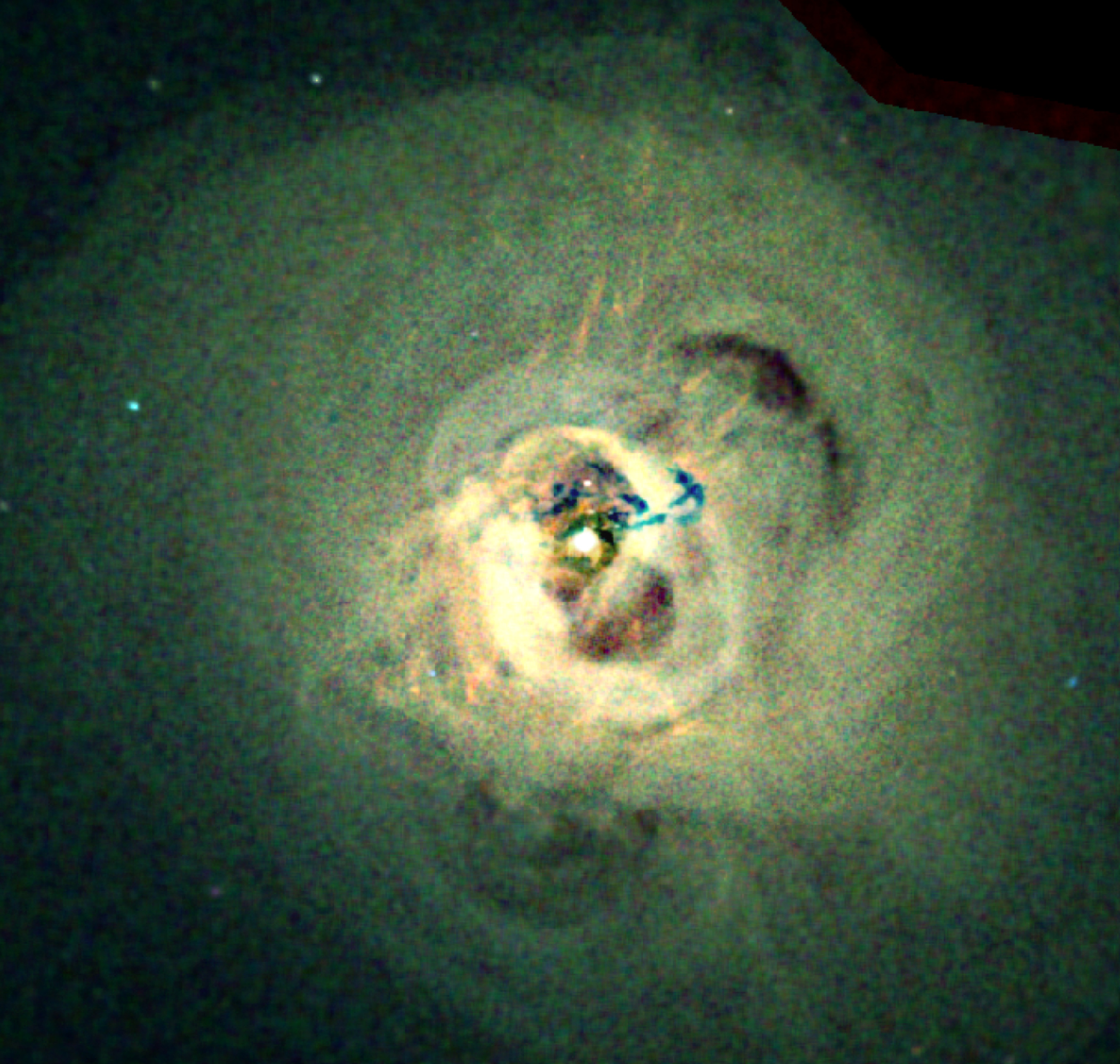 An accumulation of 270 hours of Chandra observations of the central regions of the Perseus galaxy cluster reveals evidence of the turmoil that has wracked the cluster for hundreds of millions of years. One of the most massive objects in the universe, the cluster contains thousands of galaxies immersed in a vast cloud of multimillion degree gas with the mass equivalent of trillions of suns. Enormous bright loops, ripples, and jet-like streaks are apparent in the image. The dark blue filaments in the center are likely due to a galaxy that has been torn apart and is falling into NGC 1275, a.k.a. Perseus A, the giant galaxy that lies at the center of the cluster. Image is 284 arcsec across. RA 03h 19m 47.60s Dec +41° 30' 37.00" in Perseus. Observation dates: 13 pointings between August 8, 2002 and October 20, 2004. Color code: Energy (Red 0.3-1.2 keV, Green 1.2-2 keV, Blue 2-7 keV). Instrument: ACIS.